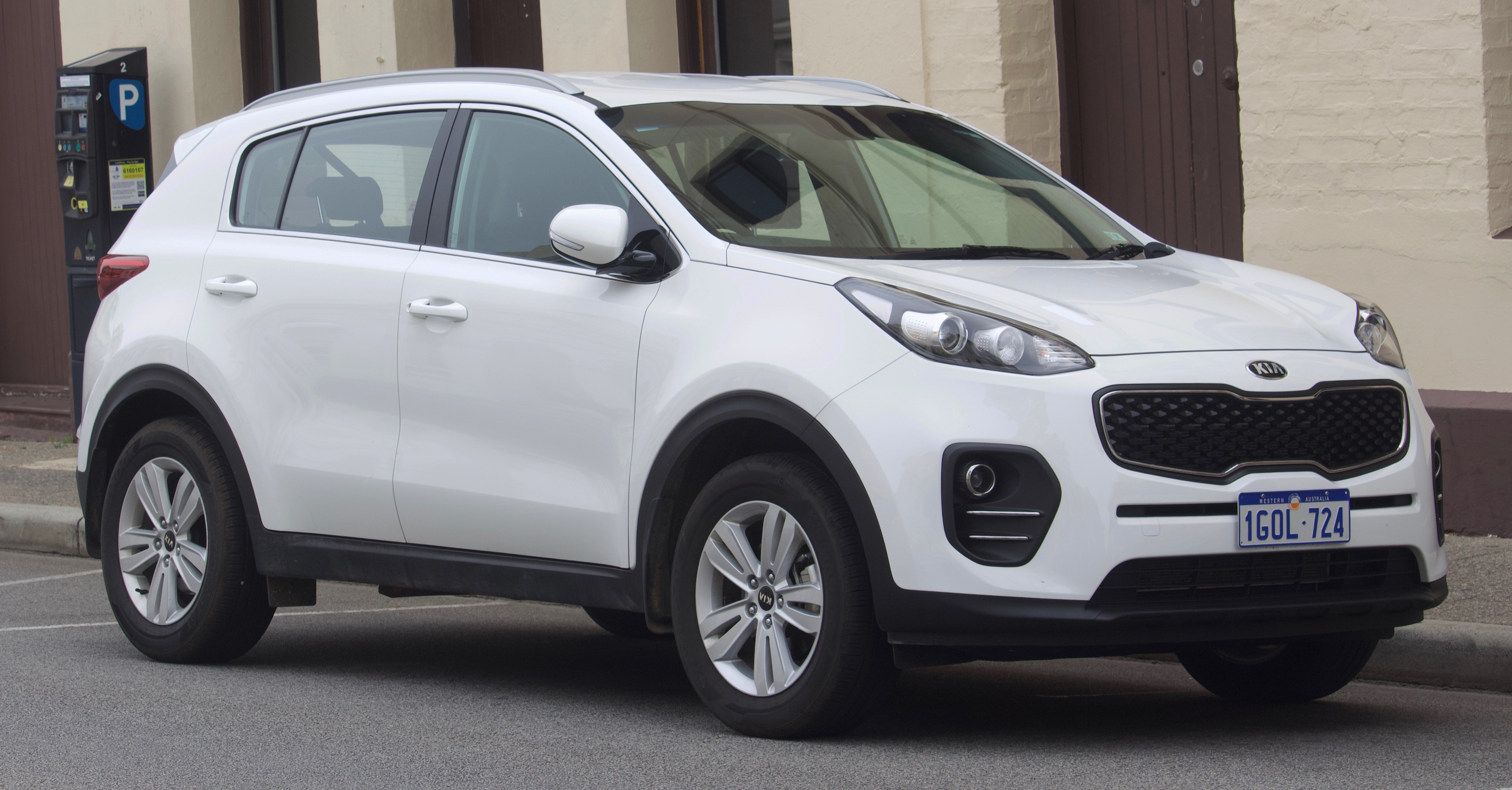 2018 Kia Sportage (QL MY18) Si wagon. Photographed in Fremantle, Western Australia, Australia.